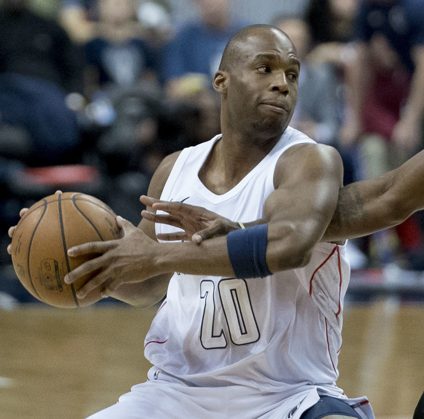 Raptors at Wizards 3/2/18